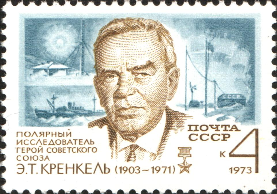 USSR stamp